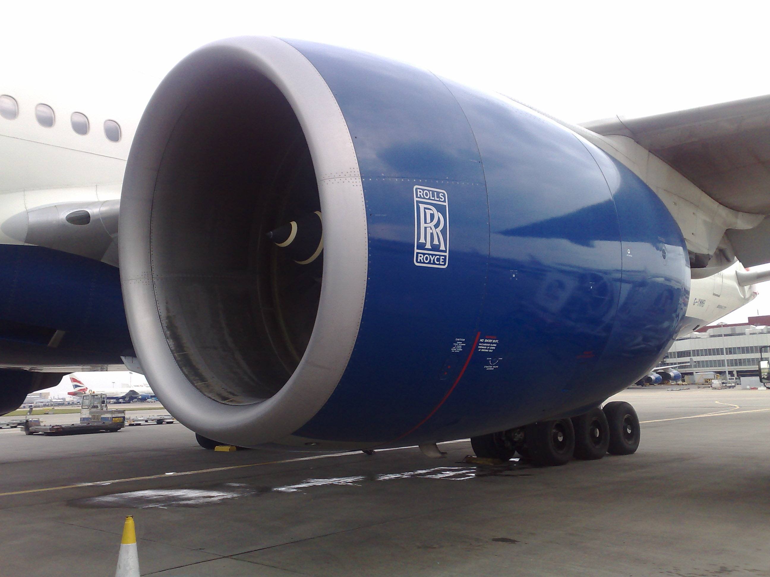 Rolls Royce Triebwerk